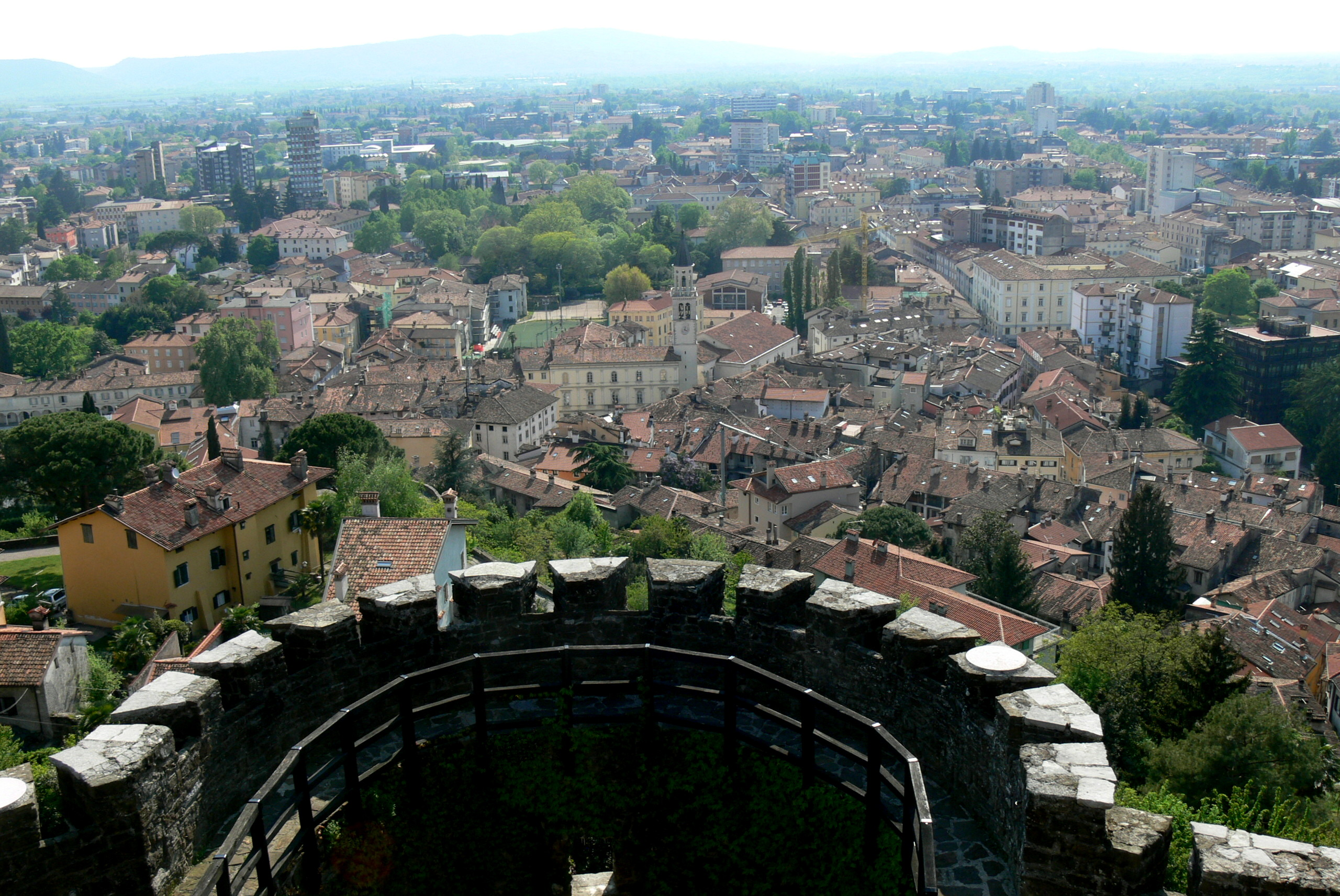 Gorizia ( Italy ). Castle: View to the city.